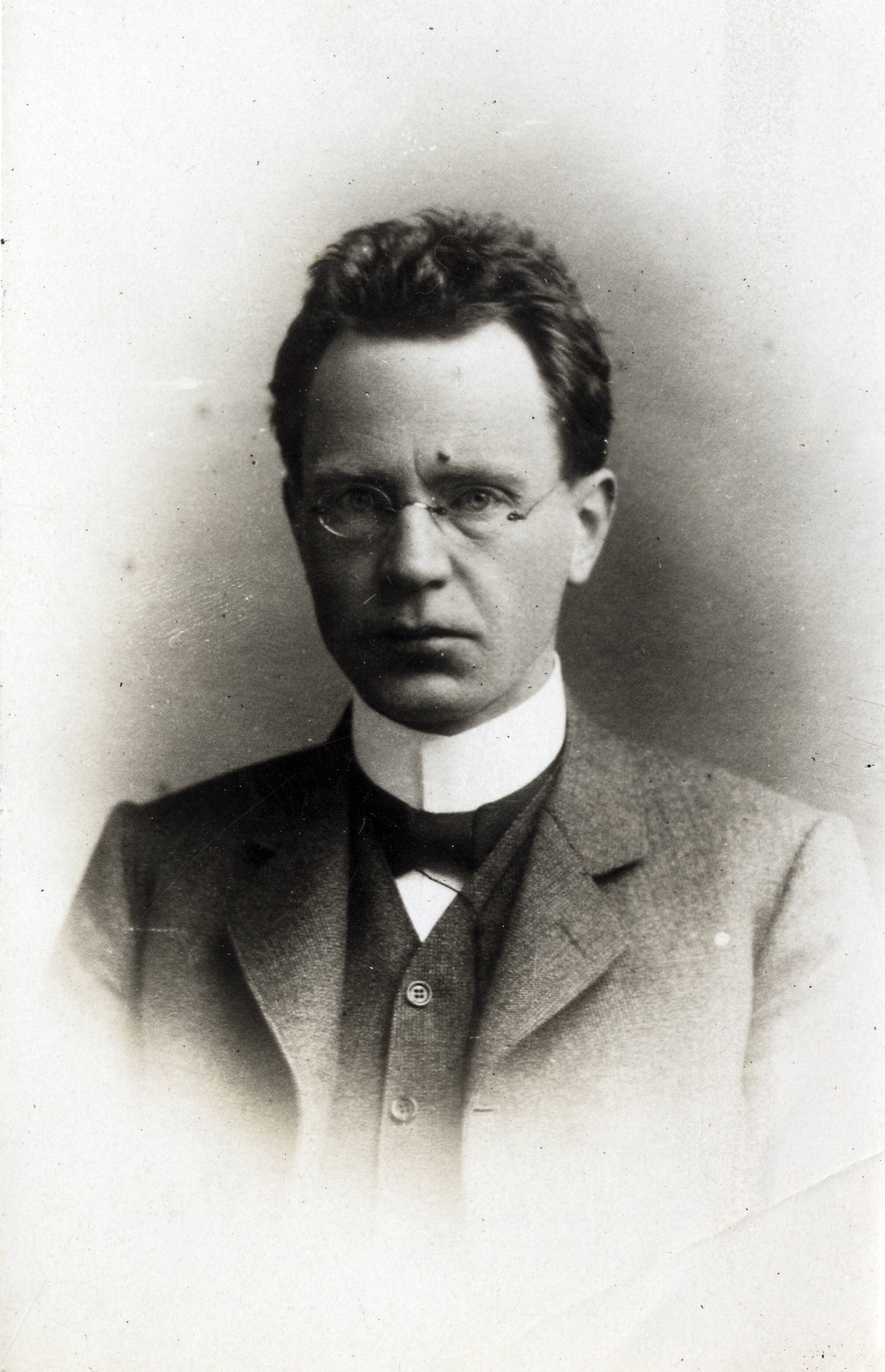 William Brede Kristensen (1867-1953), historian of religion, in 1914 (honorary doctorate Rijksuniversiteit Groningen)